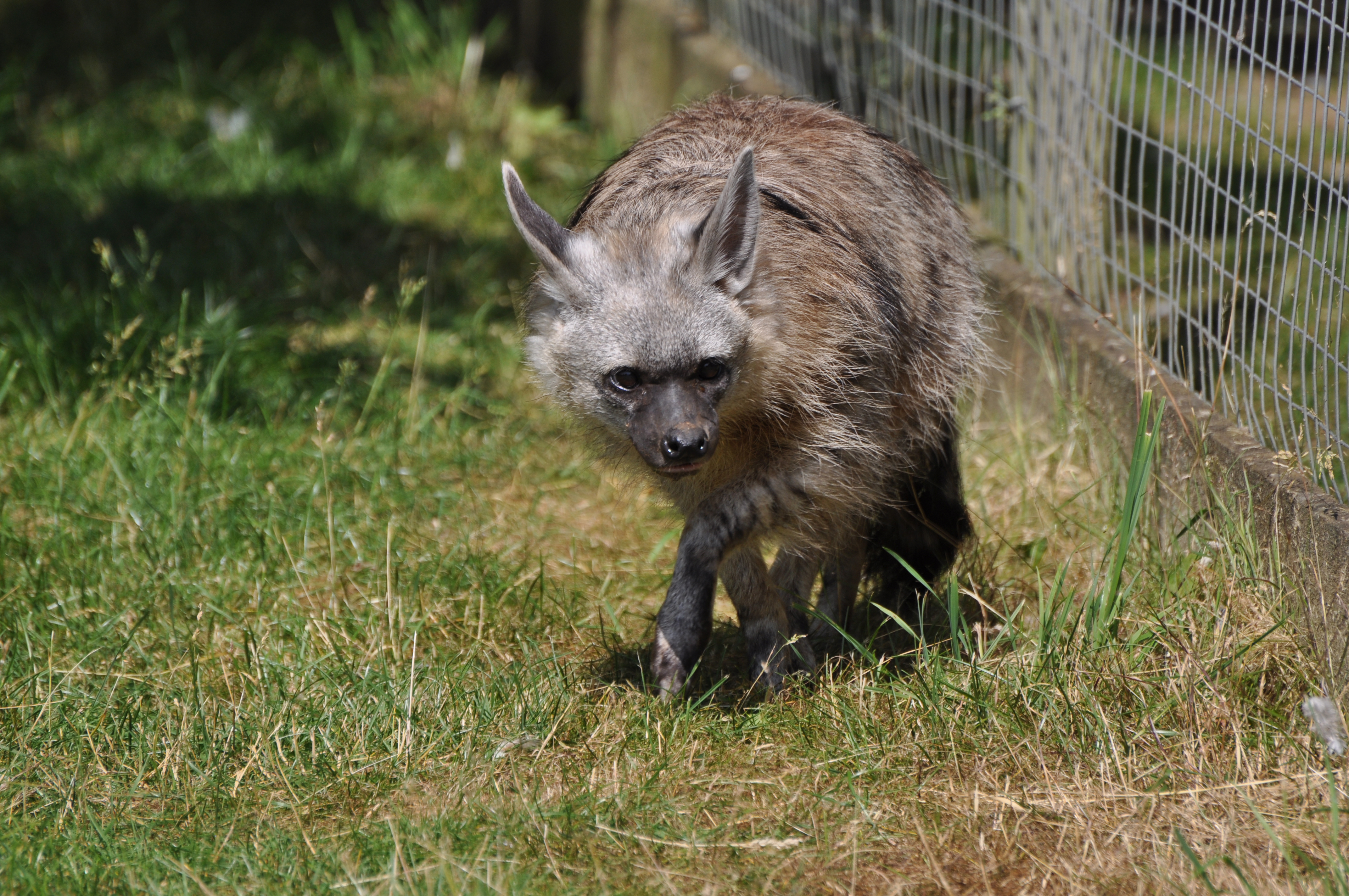 Aardwolf (Proteles cristata) at Hamerton Zoo Park